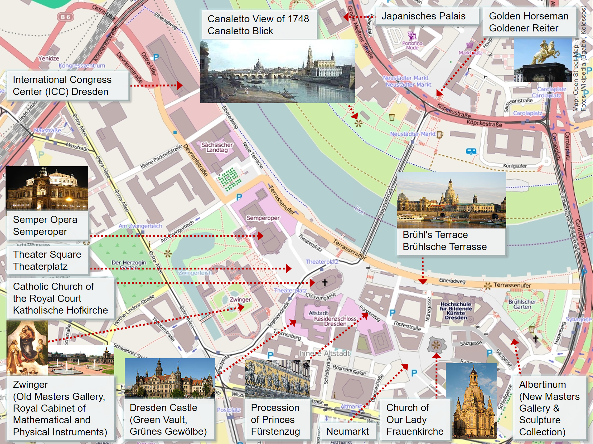 Map of the historic city center of Dresden with the main attractions